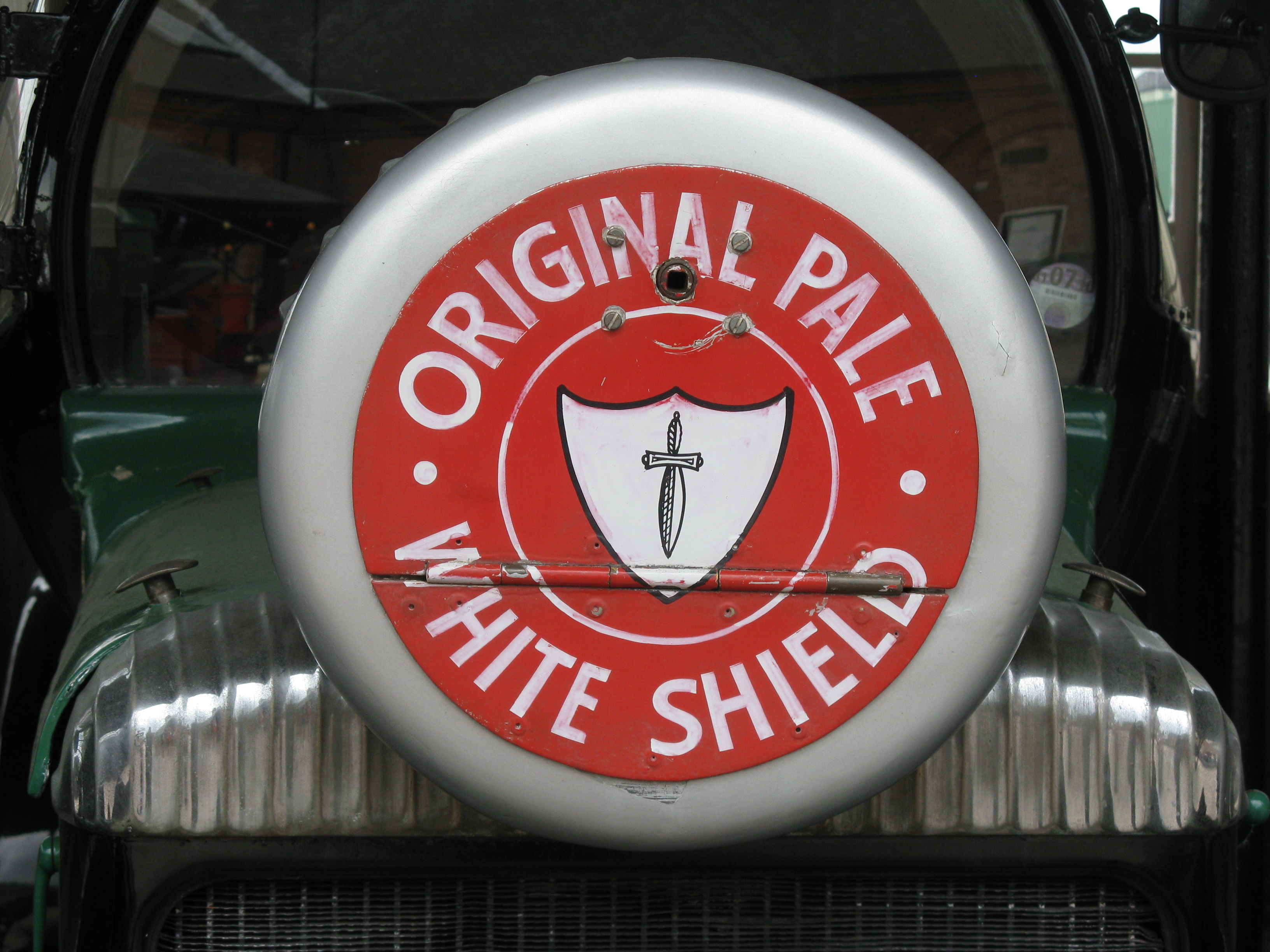 The 'White Shield' car, CTYPE html PUBLIC "-//W3C//DTD XHTML 1.0 Strict//EN" " The 'White Shield' car:: OS grid SK2423 :: Geograph Britain and Ireland - photograph every grid square! Geograph - photograph every grid square SK2423 : The 'White Shield' car near to Winshill, Staffordshire, Great Britain.